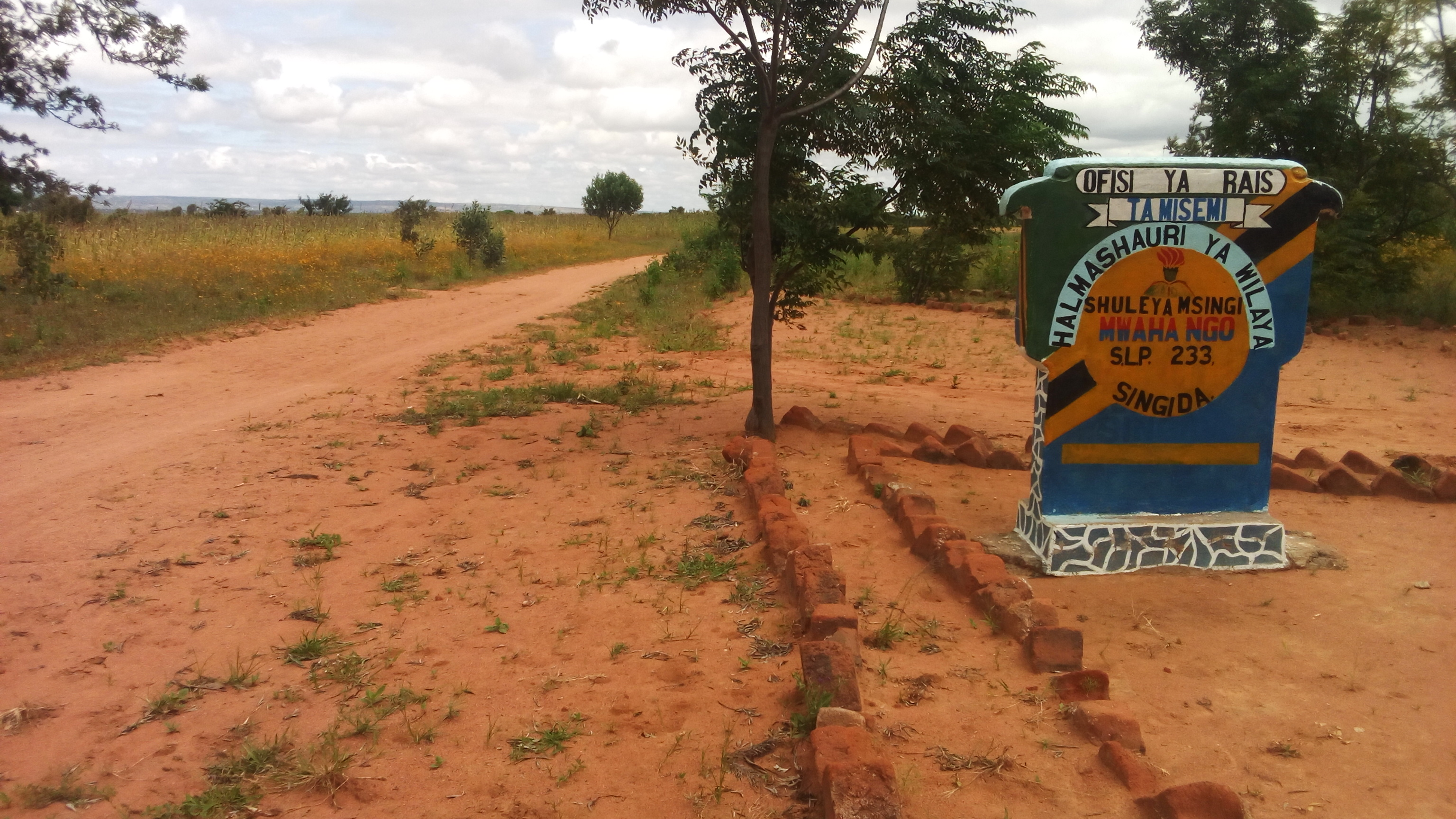 This is the foundation stone for Mwahango Primary School, Ilongelo, SIngida, Tanzania. The school was established sometimes in 1997. Kiswahili: Hili ni jiwe la msingi katika Shule ya Msingi Mwahango, Ilongelo, Singida, Tanzania. Shule ilianzishwa mnamo mwaka wa 1997.